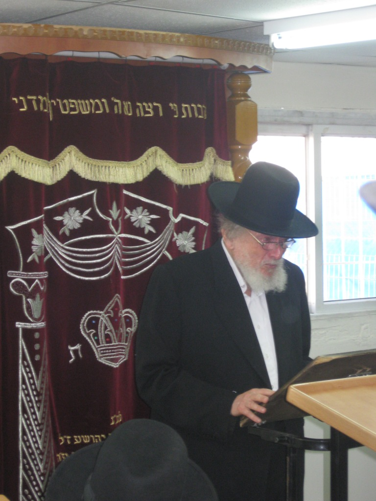 Rabbi Yehuda Boyer